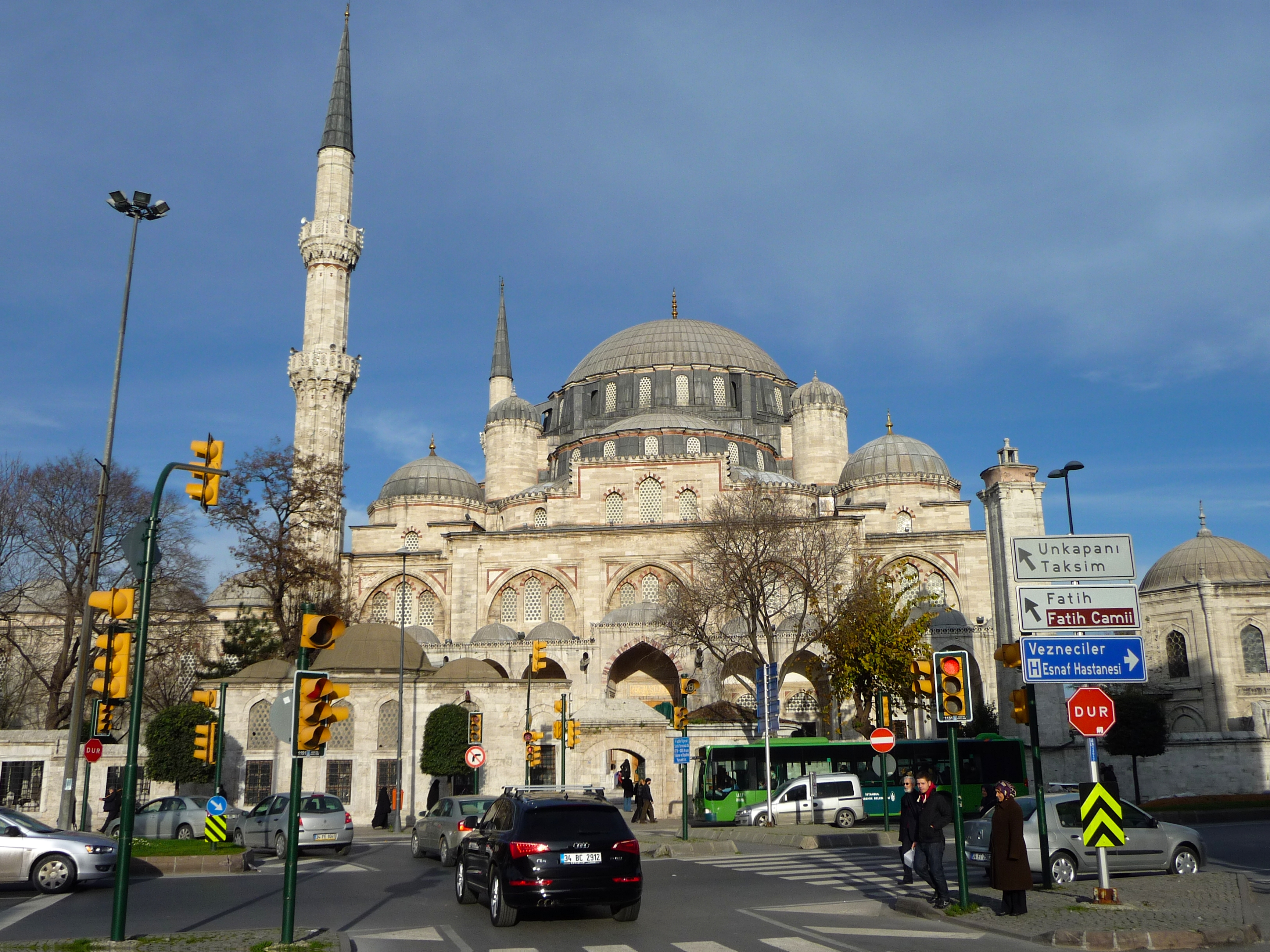 Prince's mosque (Istanbul, Turkey).